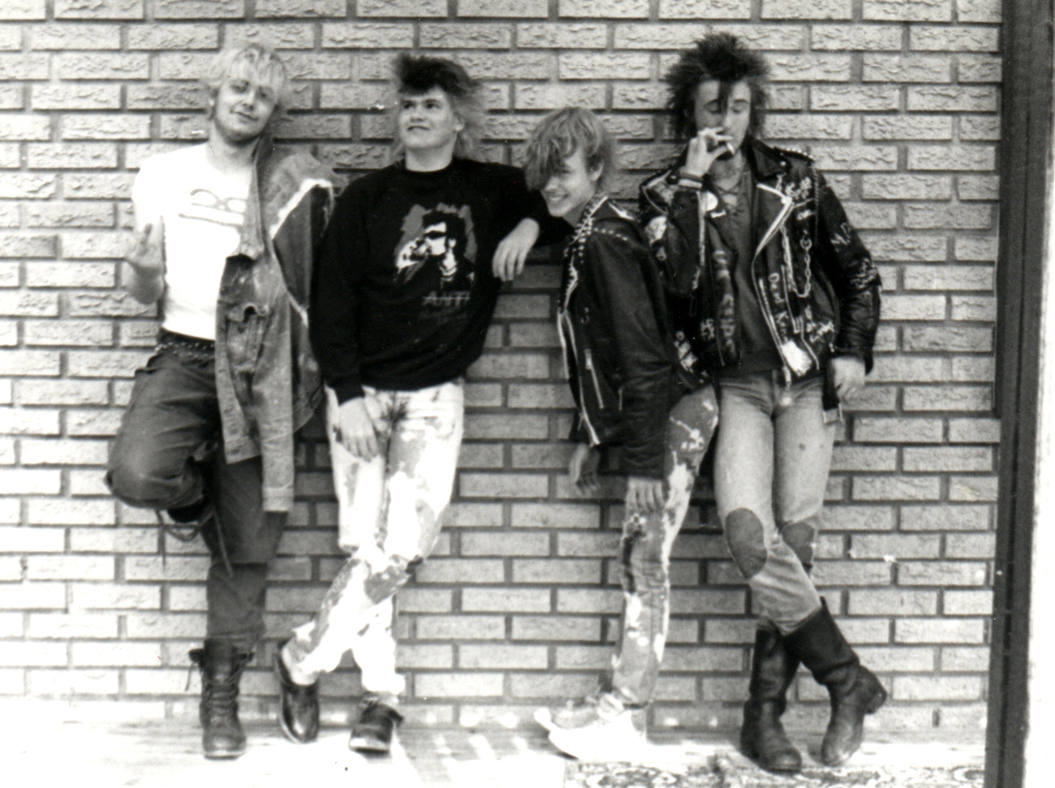 E.A.T.E.R. - Ernst And The Edsholm Rebels